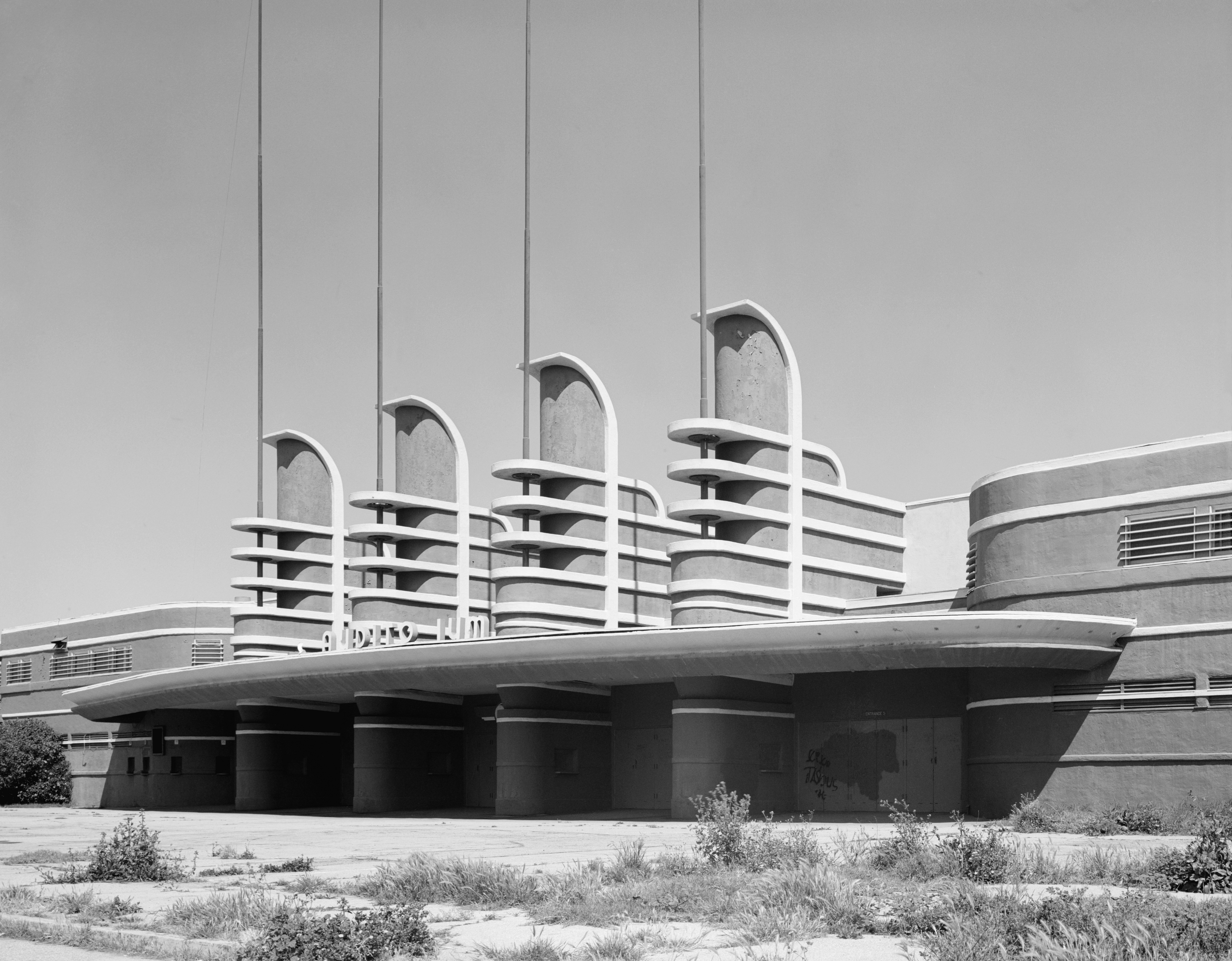 MAIN ENTRANCE, TAKEN FROM SOUTHWEST - Pan Pacific Auditorium, 1600 Beverly Boulevard, Los Angeles, Los Angeles County, CA